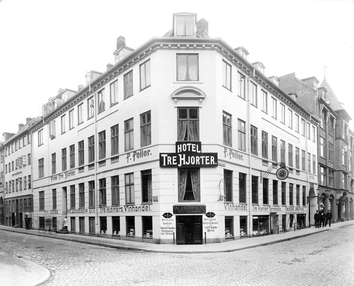 Hotel Tre Hjorter at Vestergade 12 in Copenhagen, Denmark